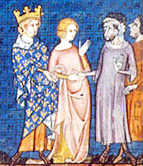 Charles the Simple giving his daughter to Rollo